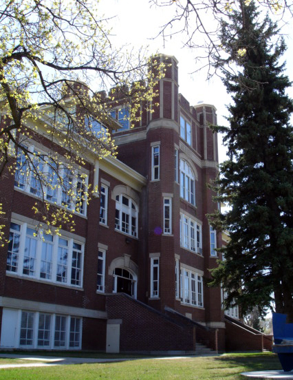 Albert Community Centre, formerly Albert School, in Saskatoon, Saskatchewan, Canada. Built in 1912 as an elementary school, it was closed in 1979. It was reopened shortly after as a community hall for the Varsity View and Nutana neighbourhoods.